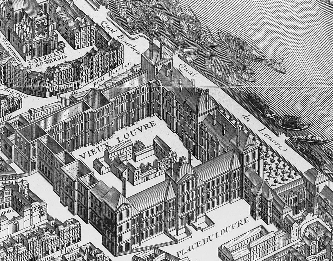 View of the Palais du Louvre on the 1739 Turgot map of Paris